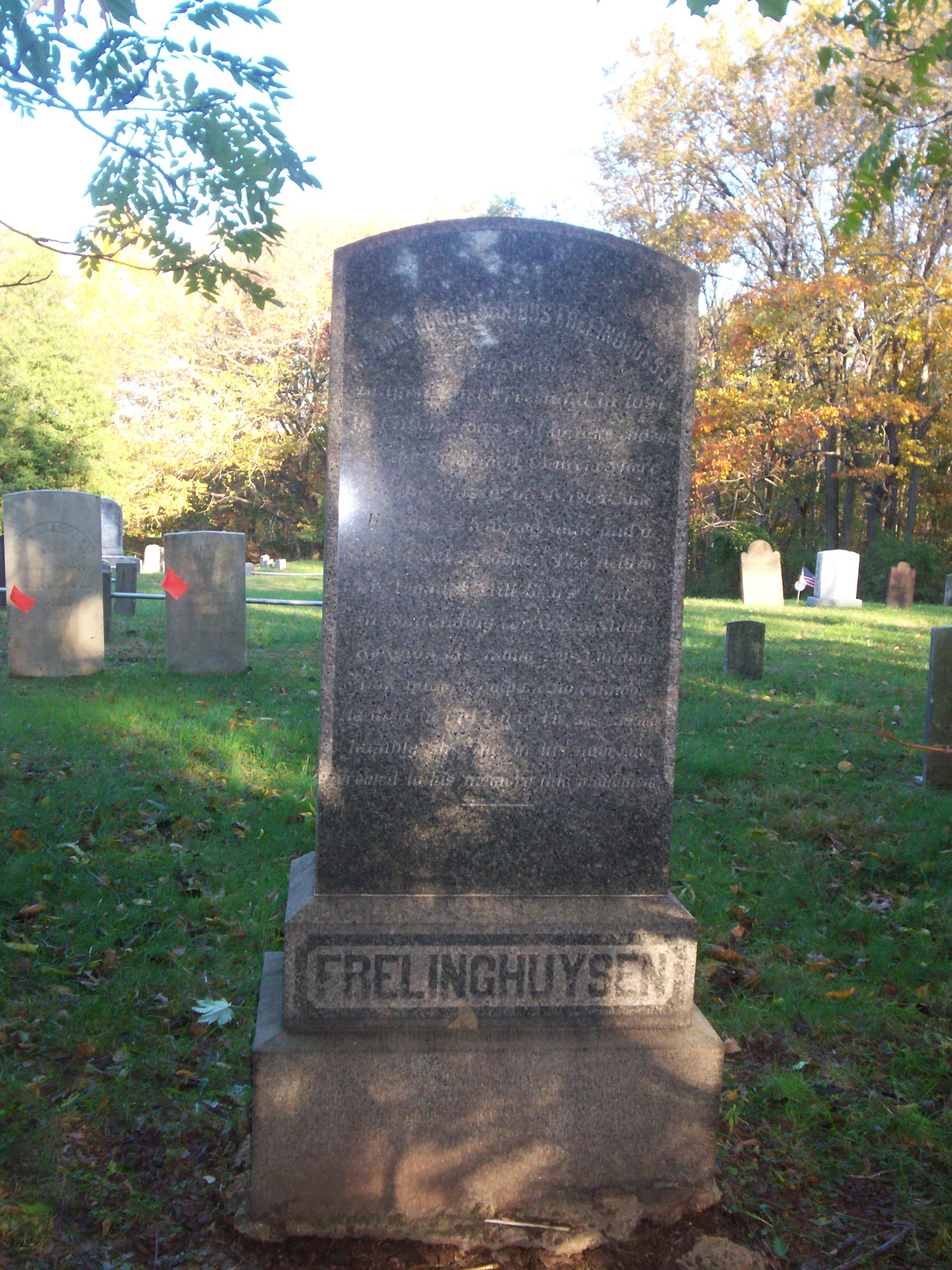 Theodorus Jacobus Frelinghuysen cenotaph at Elm Ridge Cemetery, North Brunswick Contents 1 Source 2 Inscription 3 Licensing 4 Original upload log Source Richard Arthur Norton (1958- ) archive Inscription Rev. Theodorus Jacobus Frelinghuysen. Born at Lingen, East Freesland in 1691. In 1719 he was sent to take charge of the Reformed Churches here by the Classis of Amsterdam. He was a learned man and a successful preacher. The field of his labor still bears fruit. In contending for a Spiritual Religion his motto was, "Landem non quero culpam non timeo." He died in 1747, and his descendants, humbly sharing in his faith, have erected to his memory this monument.